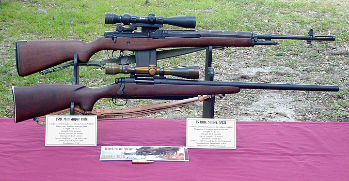 Vietnam era U.S. military sniper rifles. U.S. Army XM21 (modified M14) was a select fire automatic rifle, 20-round external box magazine. U.S.M.C. M40 (Remington 700) was a bolt-action rifle, 5-round internal magazine. Both examples are exact reproduction rifles with rare original Vietnam War era military issue optics.